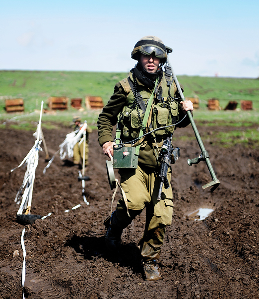 February 22, 2011 The Combat Engineering Corps trains its soldiers in basic infantry combat and turns them into modern engineering warfare experts. One of its soldiers clears a minefield as part of a unit drill. Photo by IDF Spokesperson Unit. Featured as photo of the day on November 28, 2011. The Israel Defense Forces Facebook page The Israel Defense Forces blog Follow us on Twitter